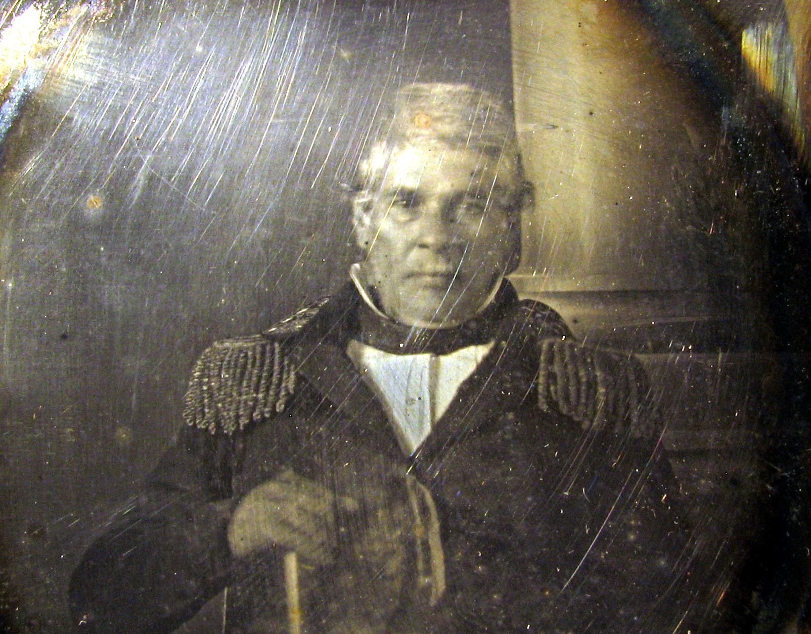 Photo of an antique image (over metal) of Coronel Cornelio Zelaya (Buenos Aires, 1782 –† íd, 1855), Argentine coronel who fought towards the independence of his country . Photo circa 1850.